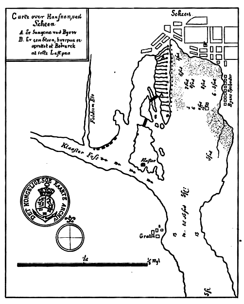 Map of Skien, Norway. Probably from 1681.